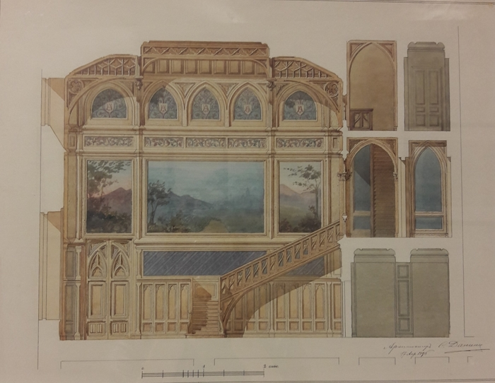 Design project of a study of Nicholas II